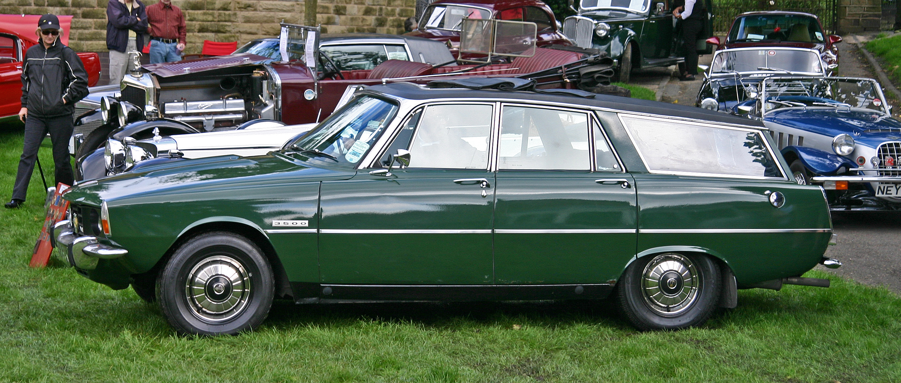 Rover 3500 Series II Estate. F.L.M. Panelcraft designed and made the conversion on the P6, often after the customer had used the car for a year, thereby avoiding tax on the conversion.